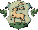 Kladeruby nad Oslavou CoA CZ